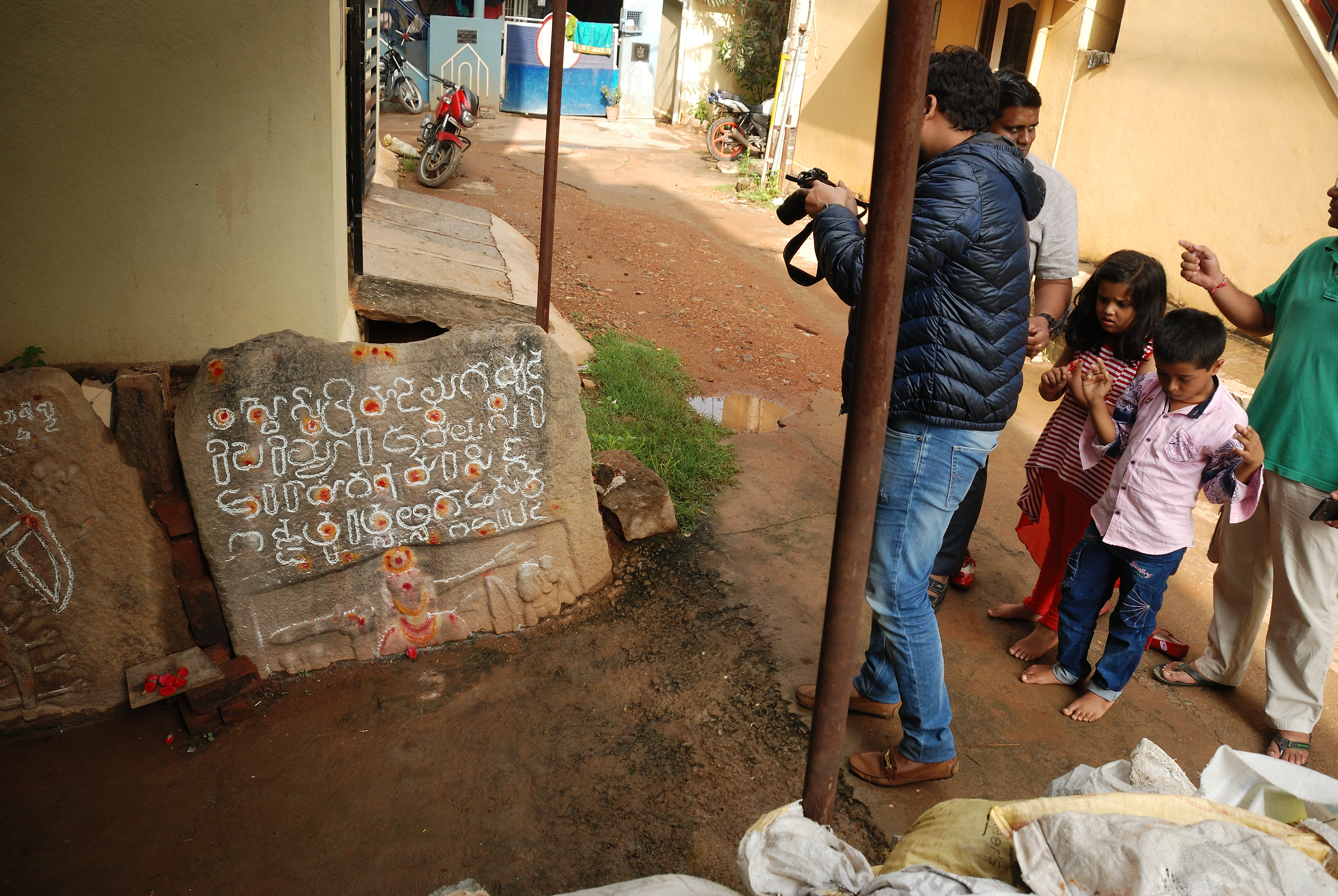 inscriptionstonesofbangalore